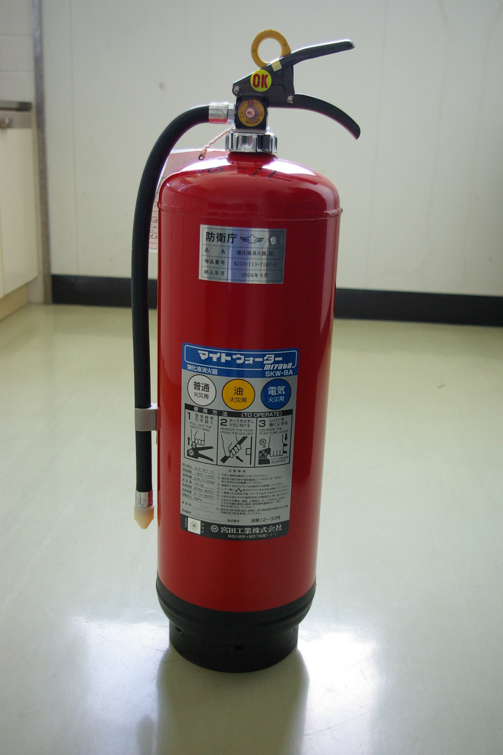 Strengthening liquid fire extinguisher.